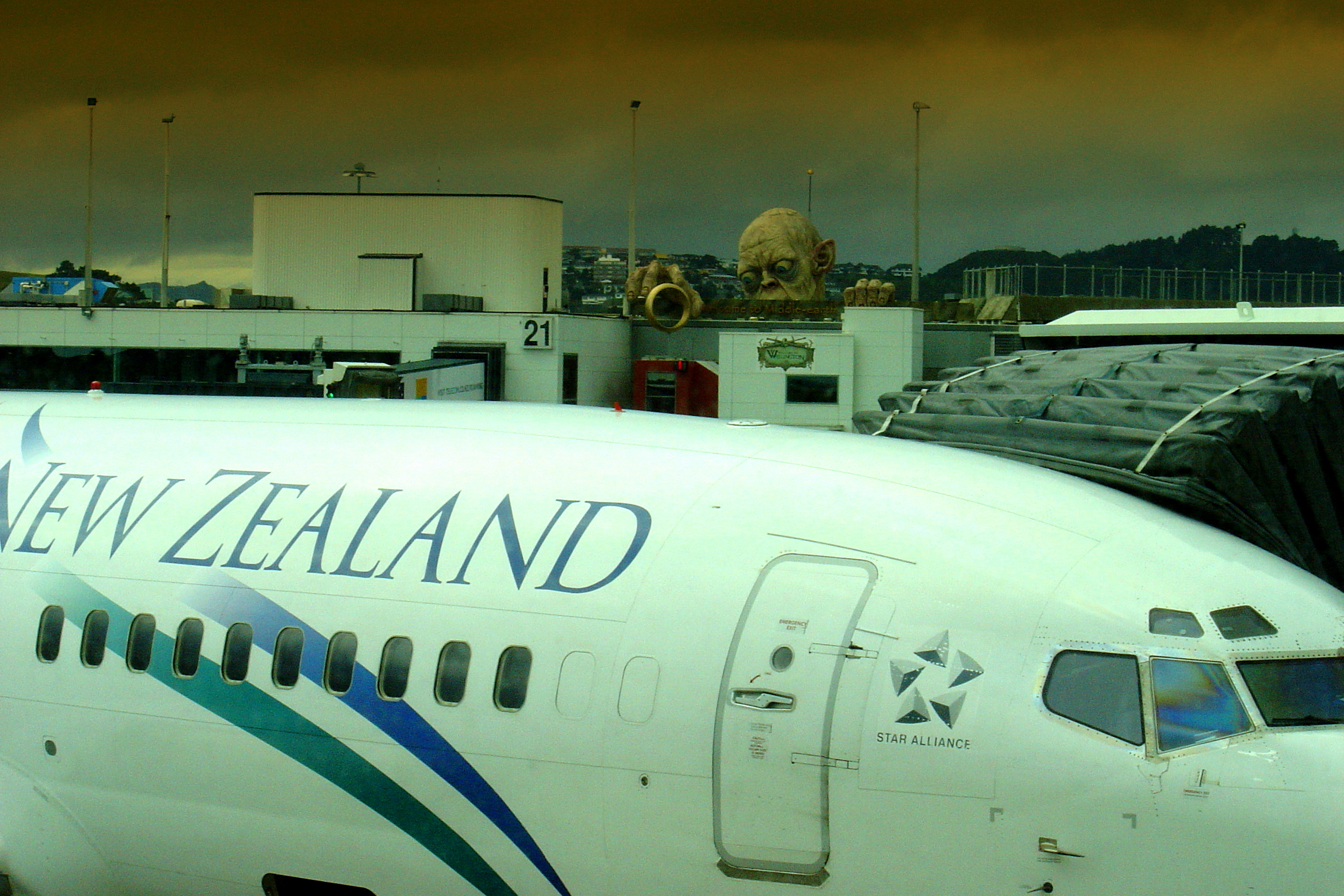 Gollum peering over the terminal building at Wellington Airport during a promotion for the Lord of the Rings movies - June 2004.